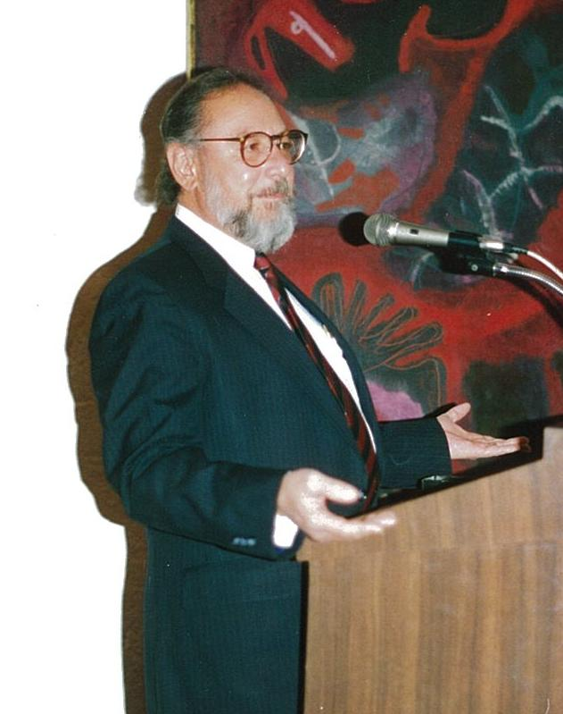 Carlos Gustavo Rosado Muñoz giving a lecture